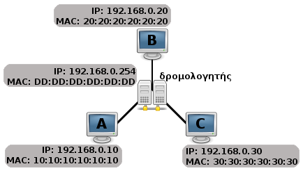 Practical example for Address Resolution Protocol